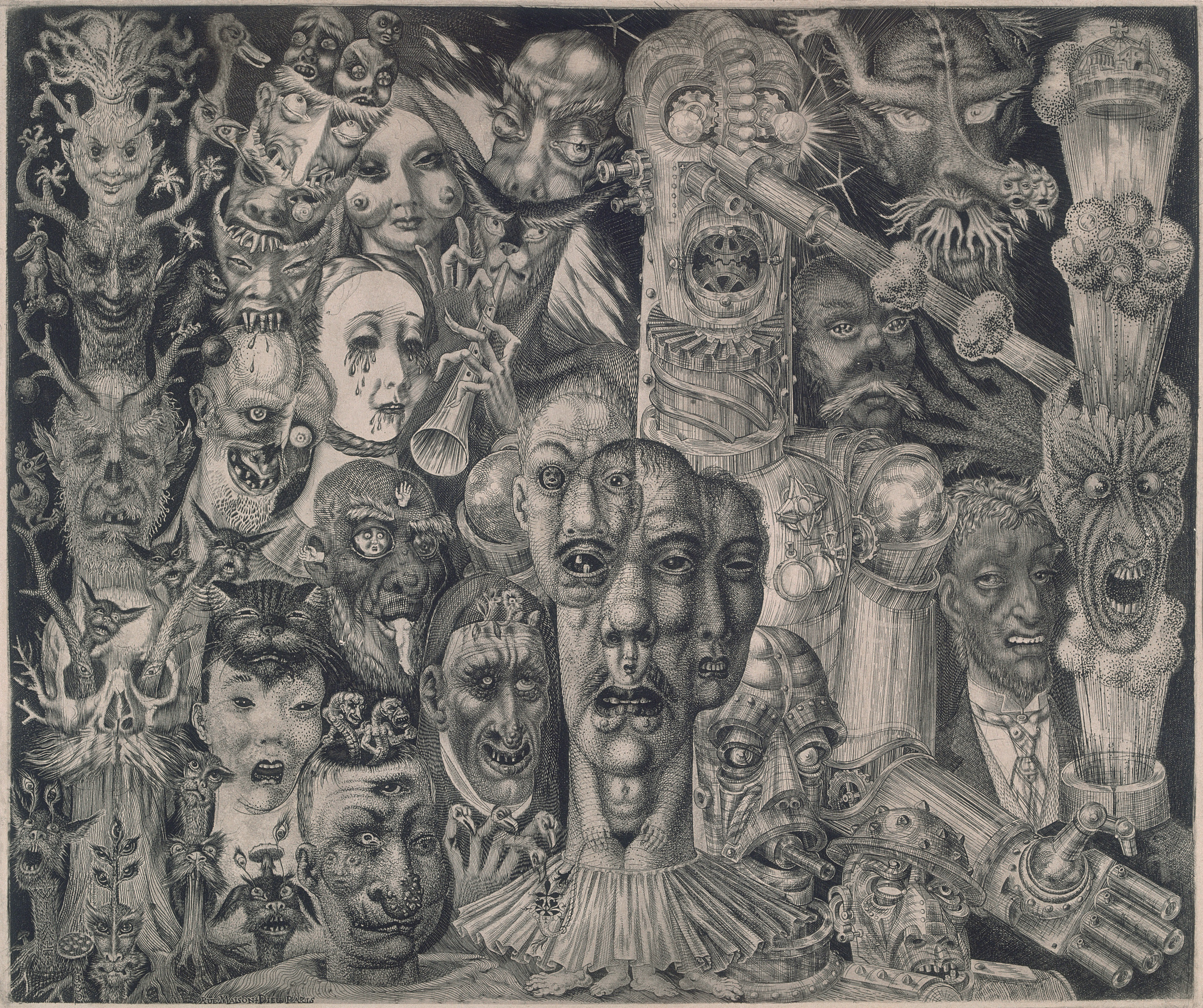 Hell (1930-1932), etching by Estonian artist Eduard Wiiralt